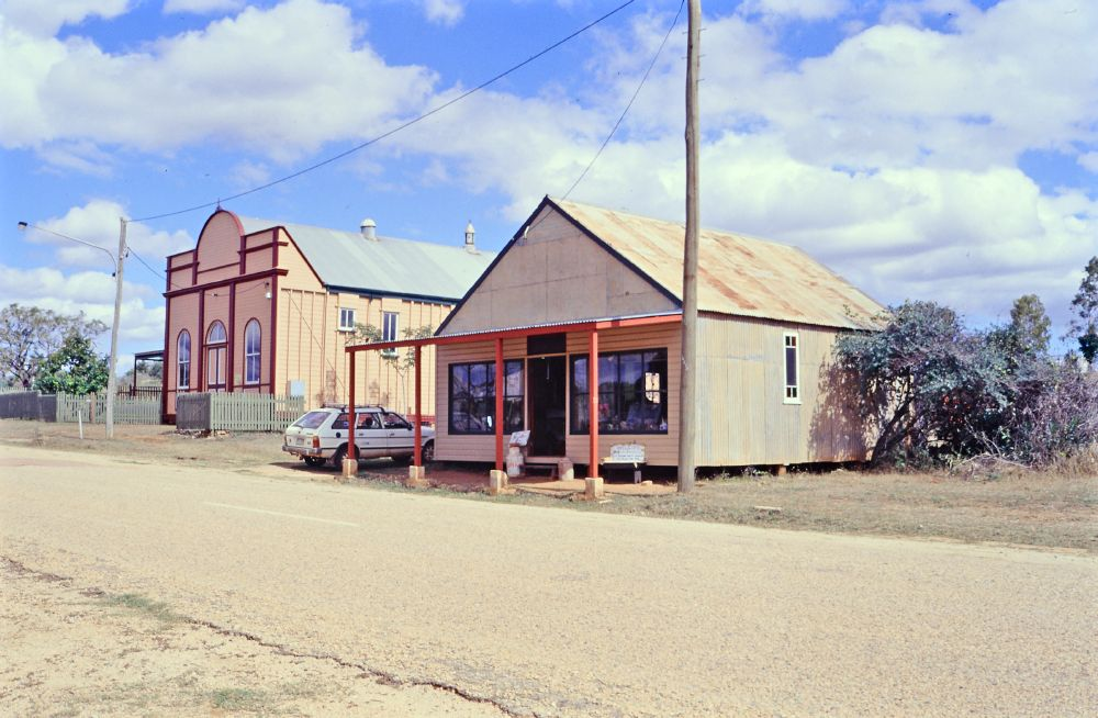 Cake Shop, Ravenswood - from Macrossan Street (1997)